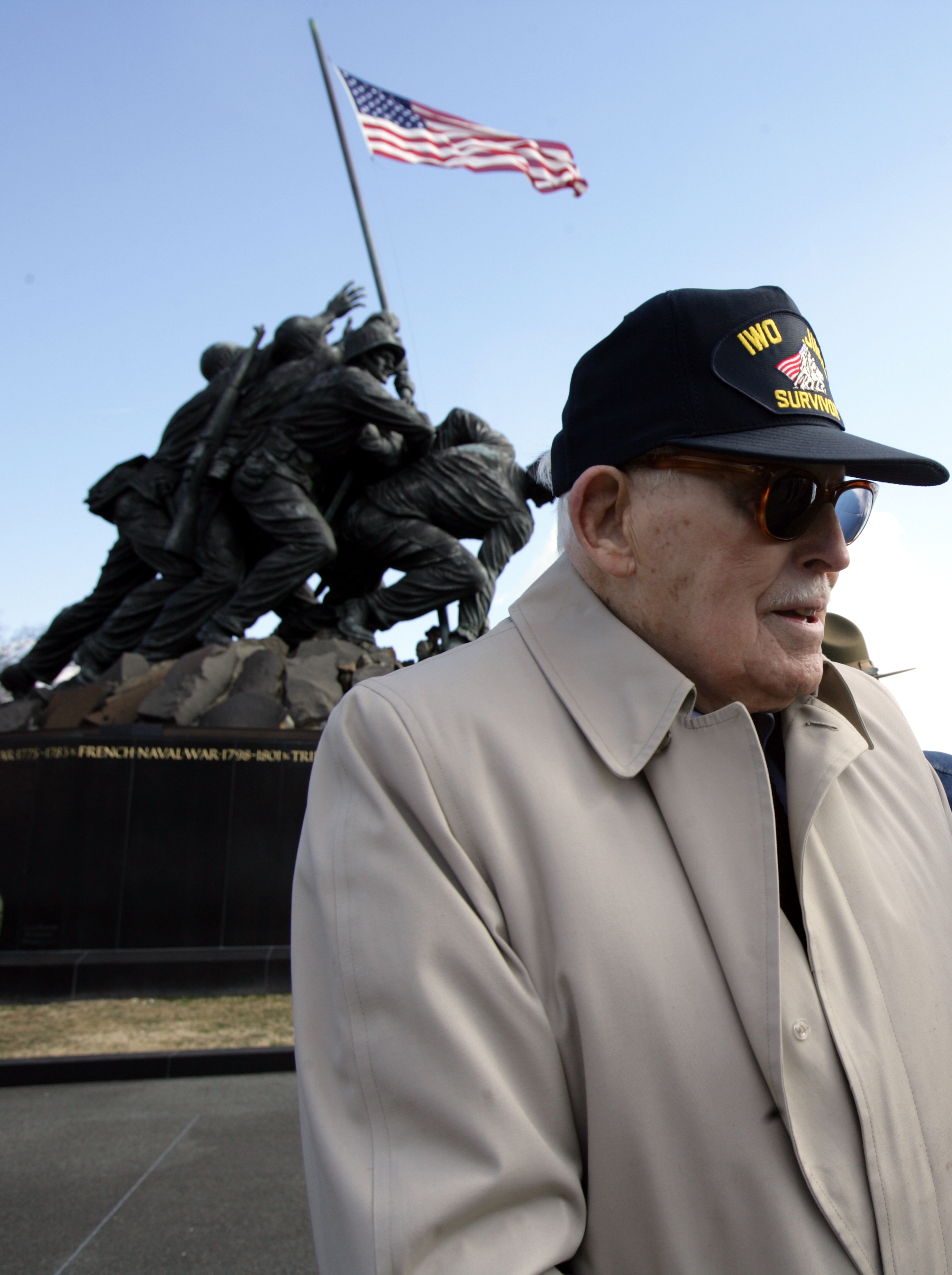 Retired Marine Maj. Norman Hatch stands in front of the Marine Corps War Memorial in Arlington, Va., just after a flag raising ceremony Feb. 23. The ceremony was held to honor those who fought and raised the American flag atop Mount Suribachi in Iwo Jima, Japan, Feb. 23, 1945, during World War II. Retired Marines, active duty Marines, reserve Marines and civilian spectators came to the memorial to observe the 64th anniversary of the infamous day in the nation’s history.